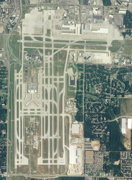 2013 satellite photo of Memphis International Airport